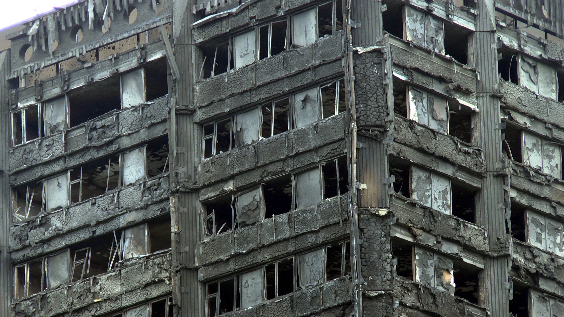 Part of Grenfell Tower, after the tragic fire, as seen from near Notting Hill Methodist Church, London. June 16, 2017.